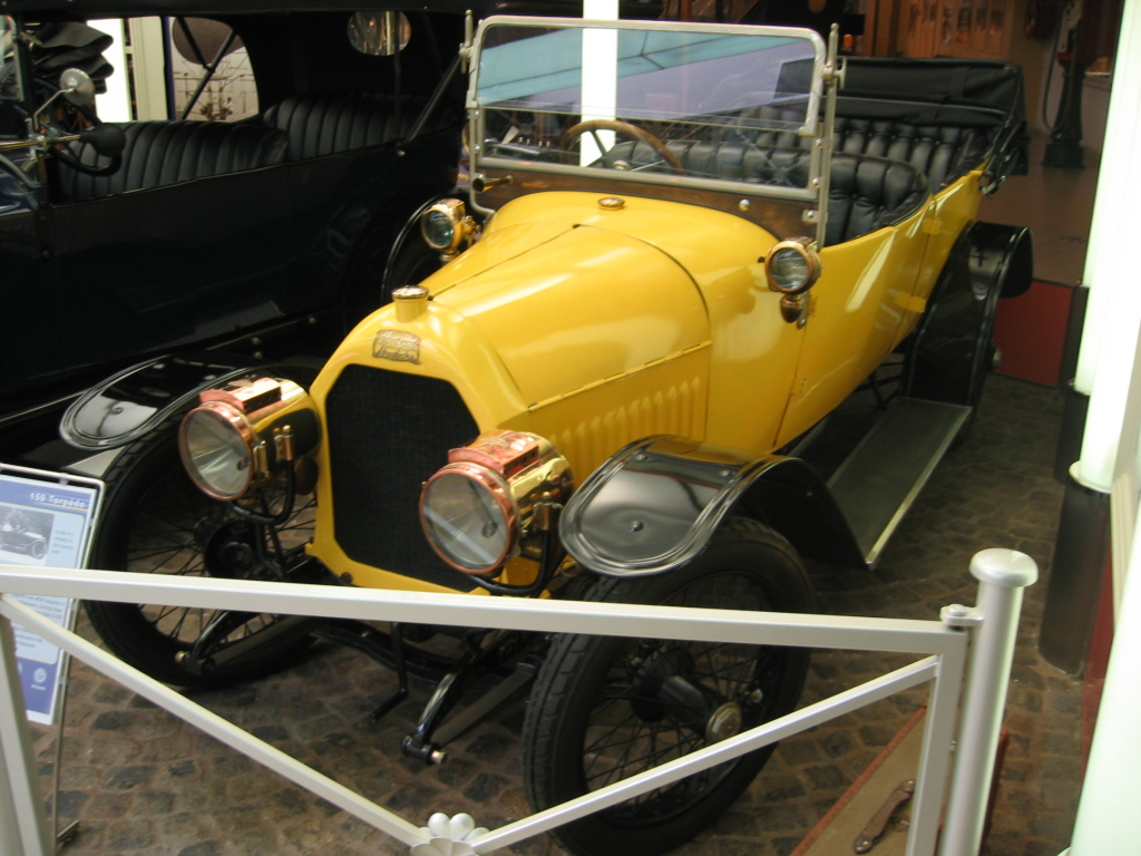 other version Peugeot Type 159 - Musée Peugeot Sochaux